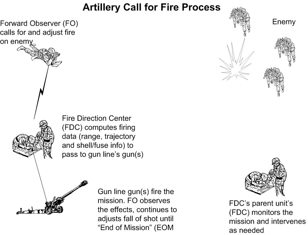 Graphic of the Artillery Call for Fire Process.